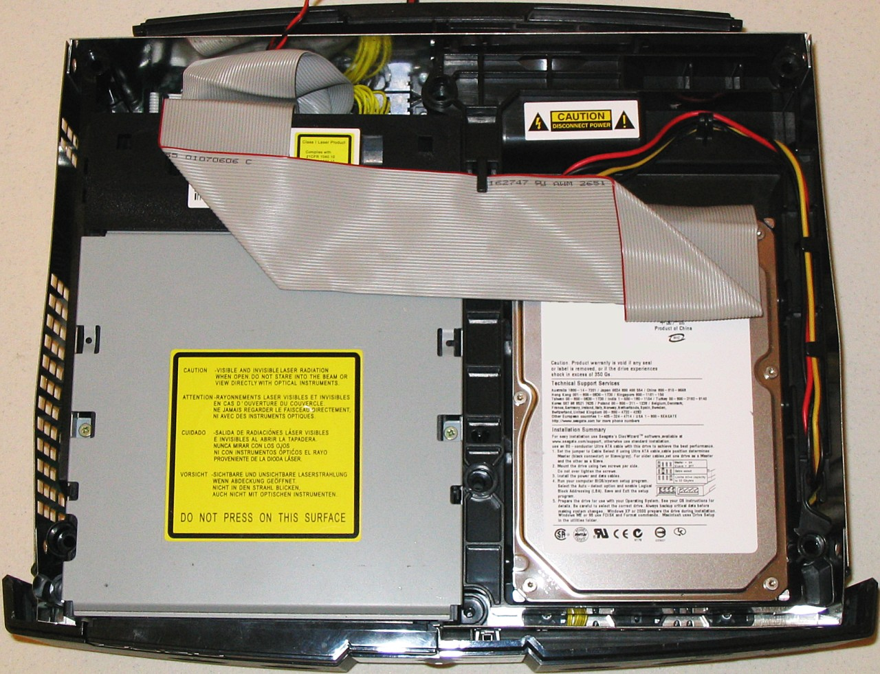 Xbox (revision 1.0) internal layout. Photographed by Swaaye.